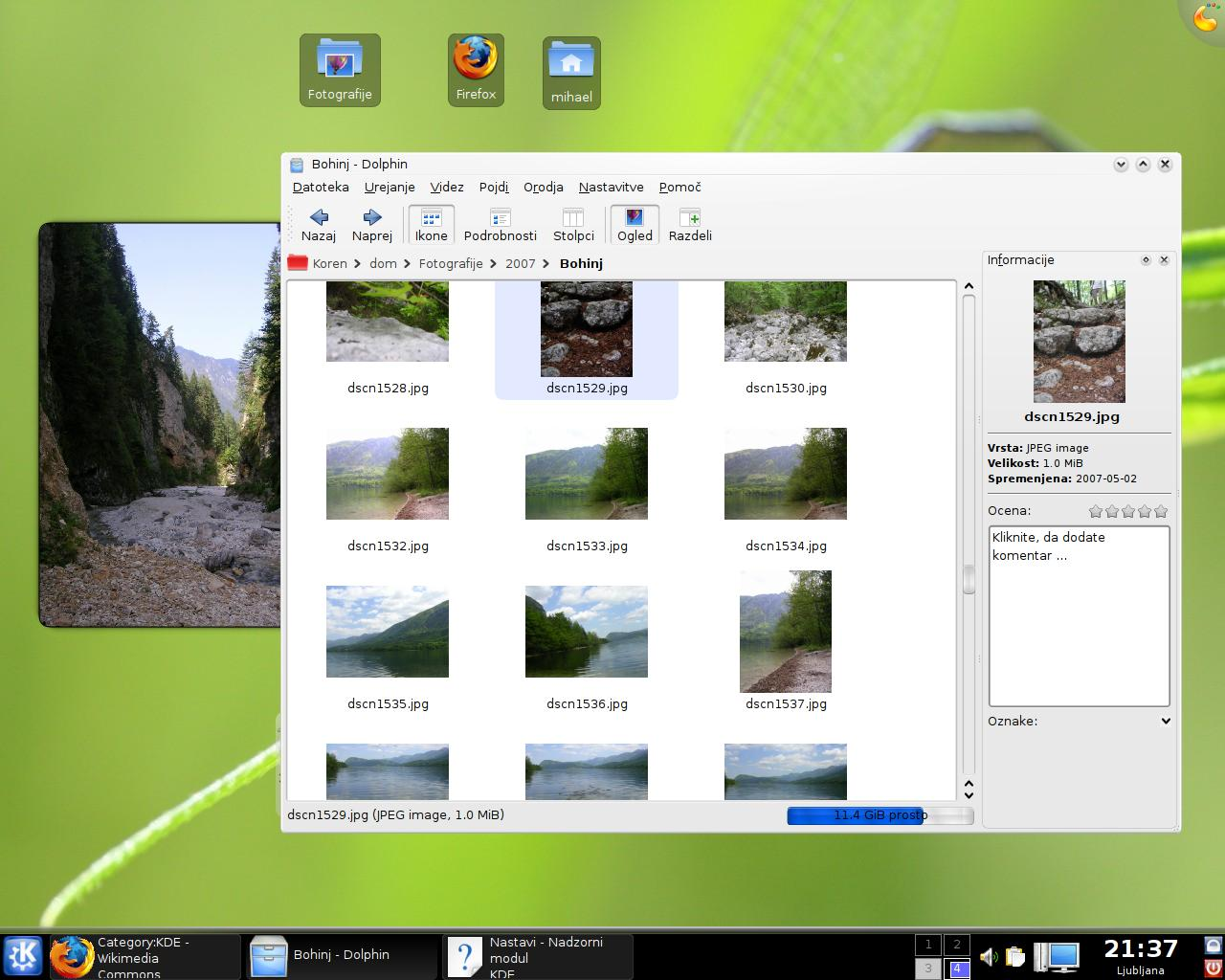 KDE 4.0.0 file manager Dolphin, translated to Slovene